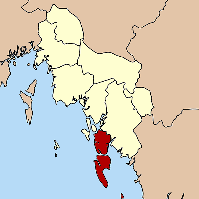 Map of Krabi highlighting the district Ko Lanta (geocode 8103)